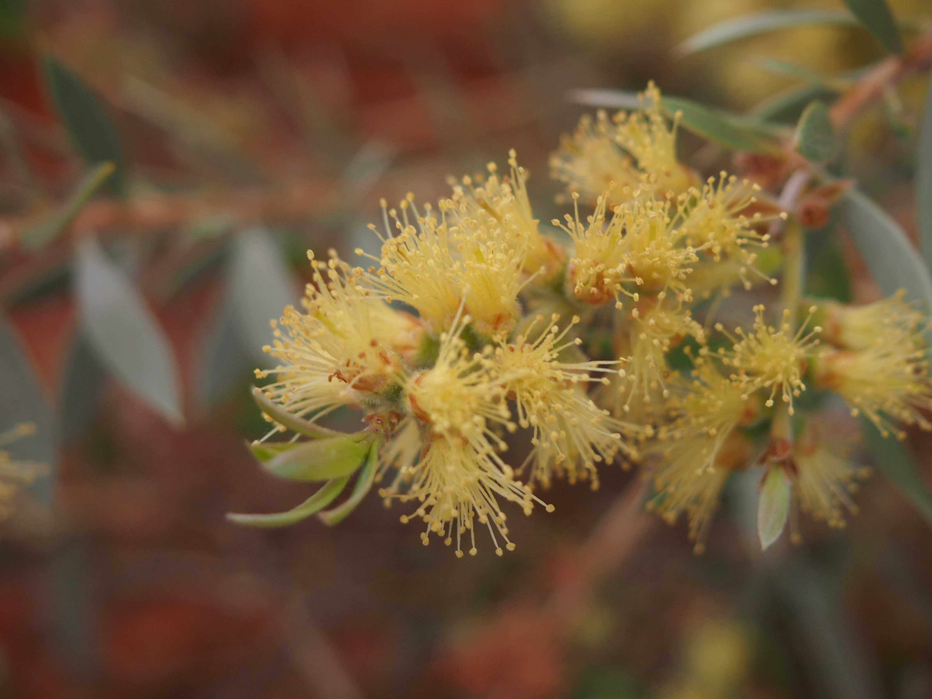 Melaleuca lasiandra flowers